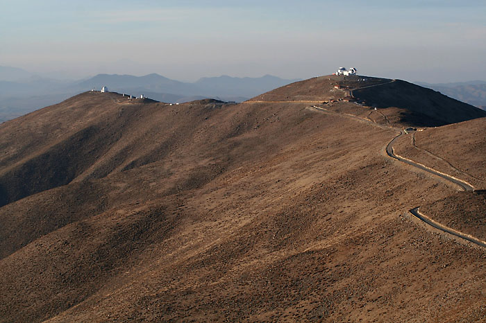 Las Campanas Observatory.